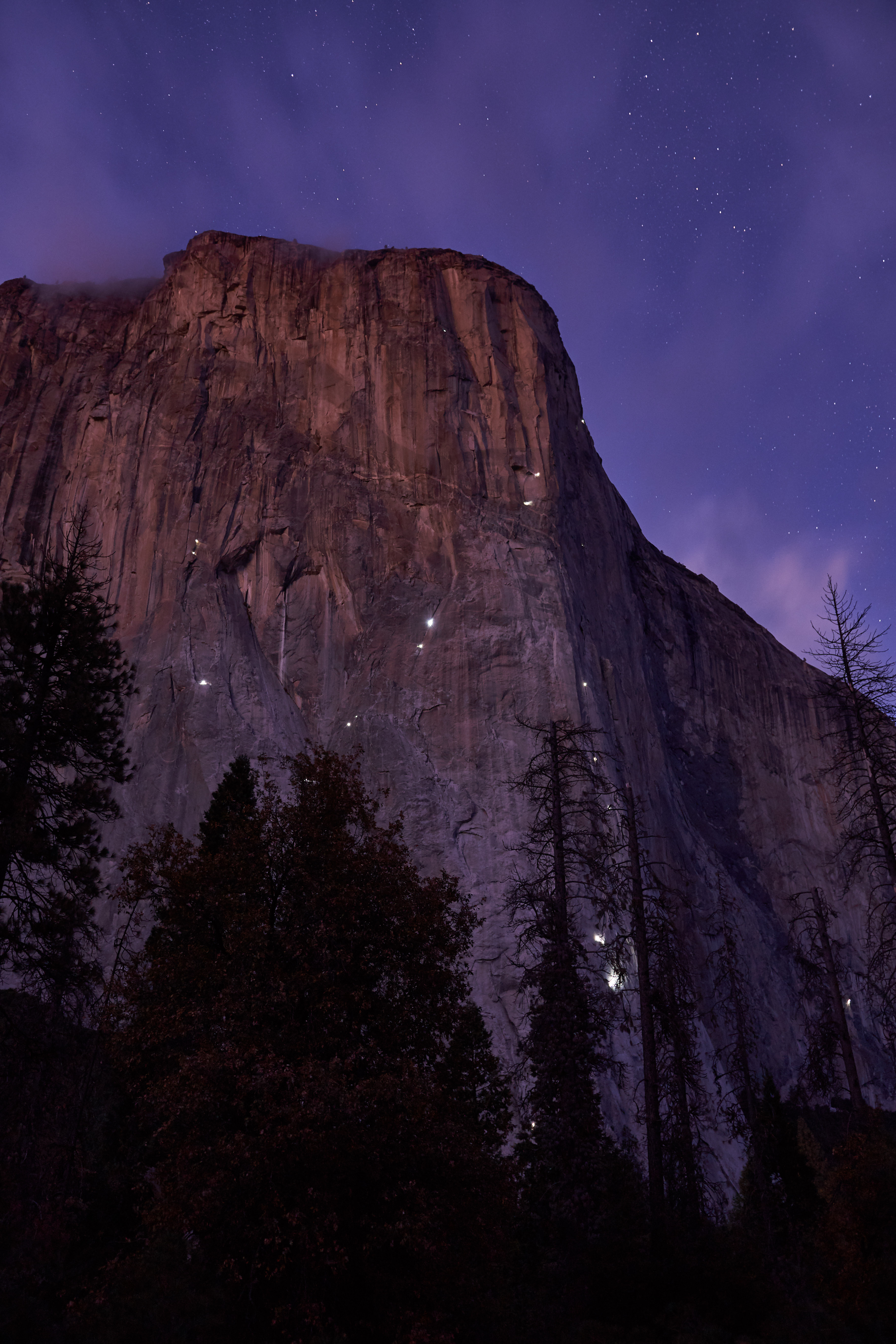 Climbers in the wall of El Capitan at nightfall.